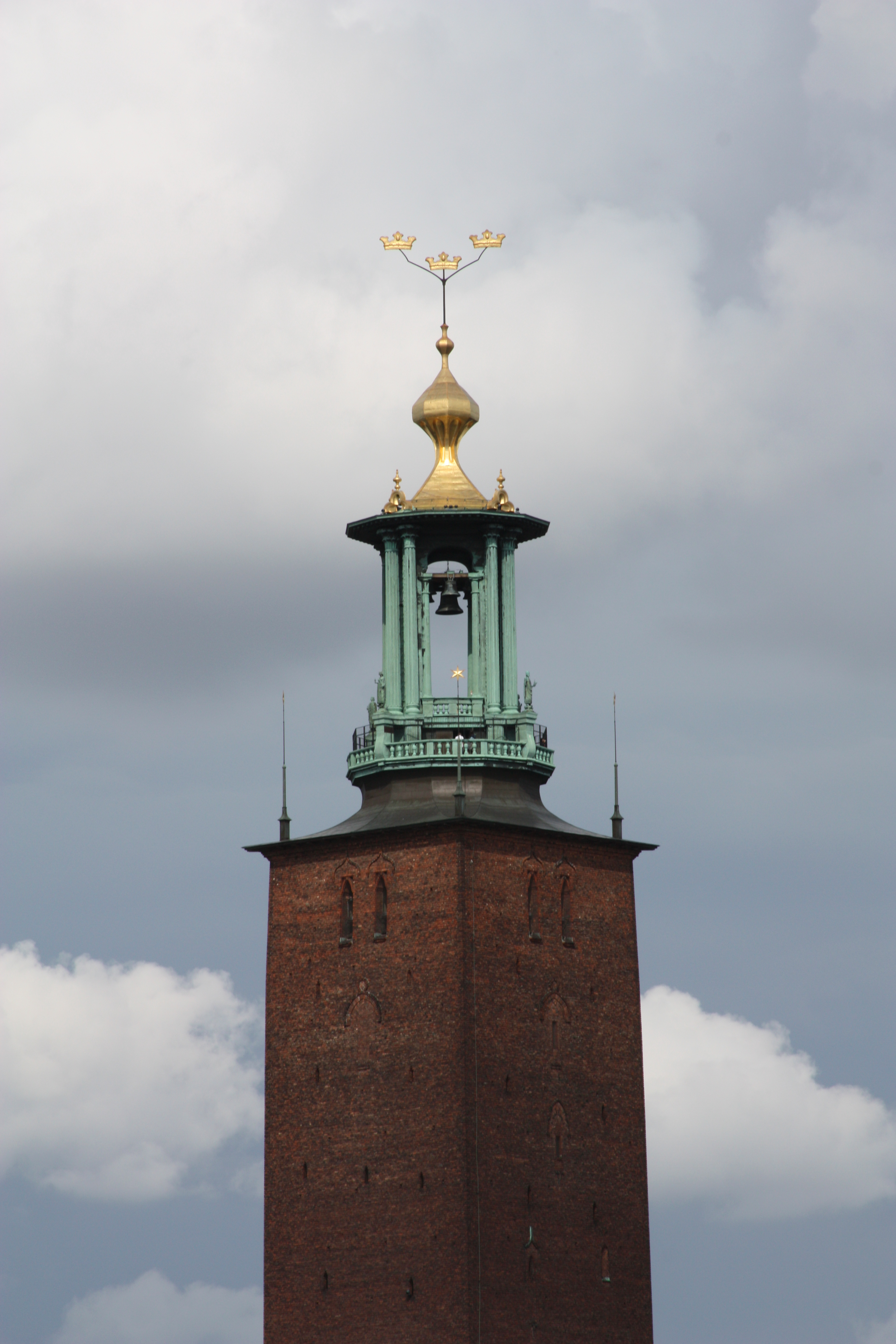 Stockholm City Hall tower — top.